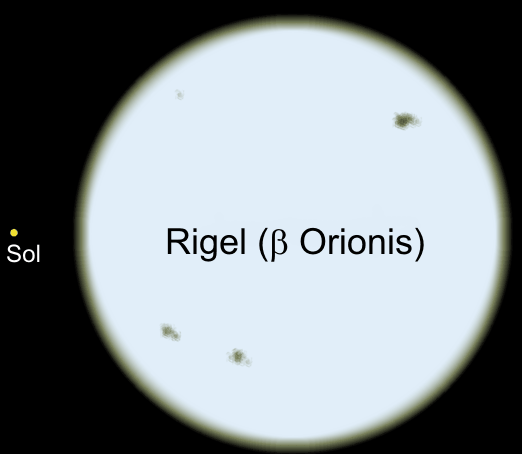 Size comparison between sun and the blue giant star Rigel(beta Ori), which has a diameter approx. 60 times bigger than the sun's.